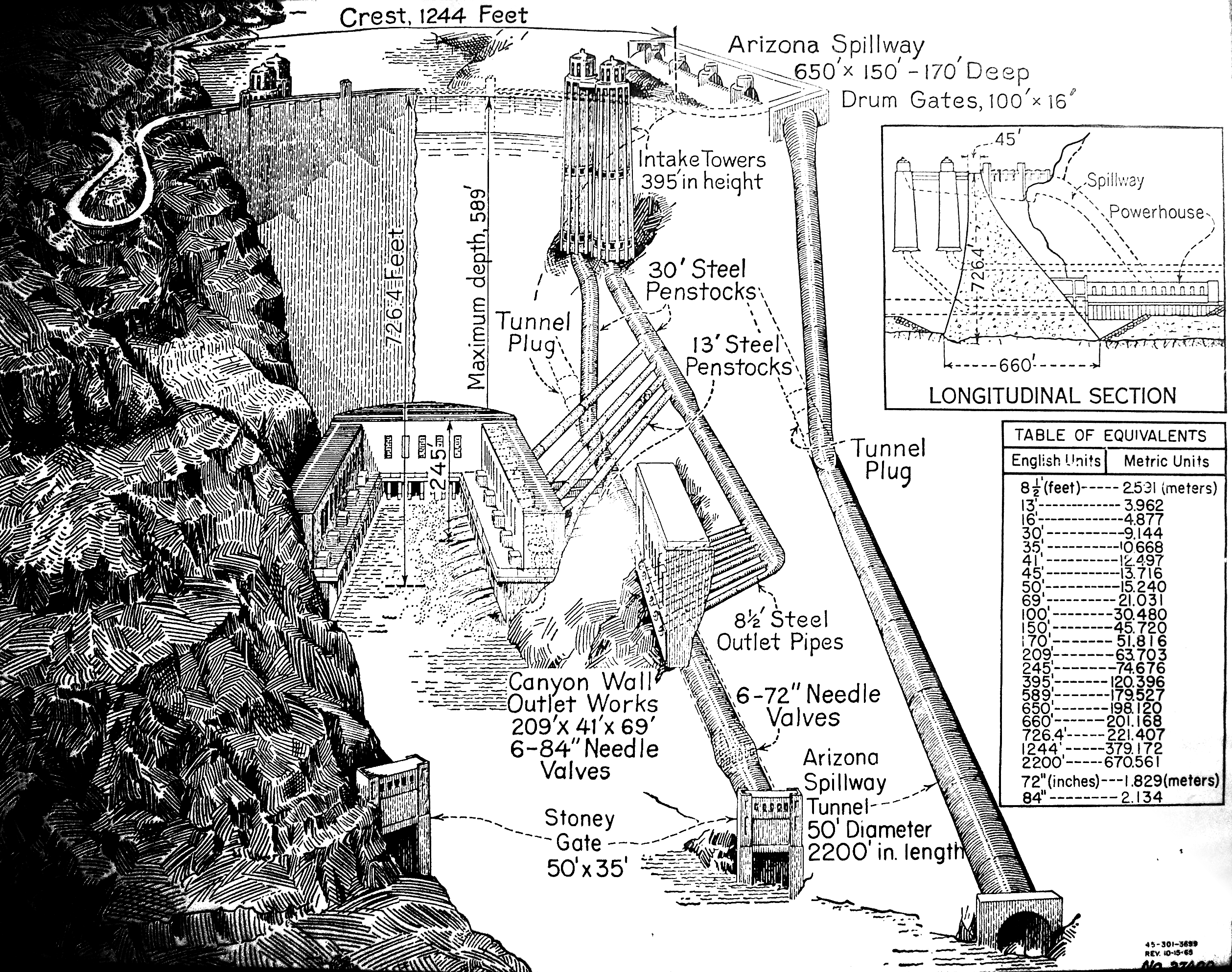 Hoover Dam Diagram - photo of a poster; adjusted contrast & perspective to restore original's black+white appearance